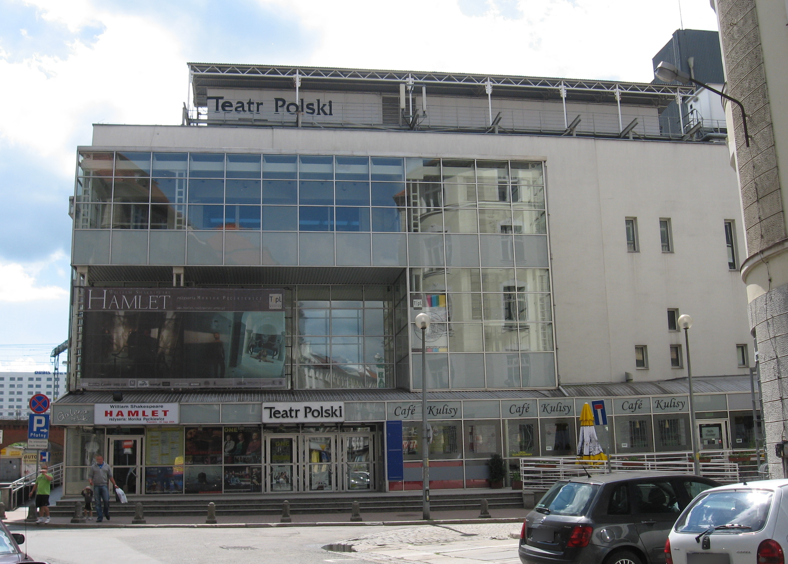 The main seat of Polish Theatre in Wrocław, Jerzy Grzegorzewski's Stage.